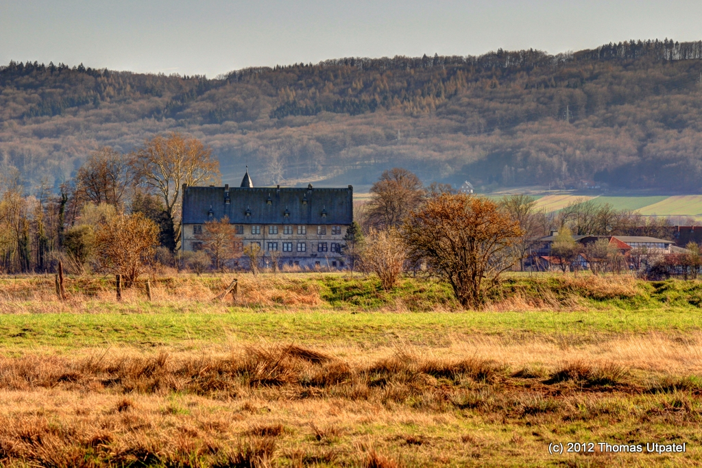 Castle Haddenhausen